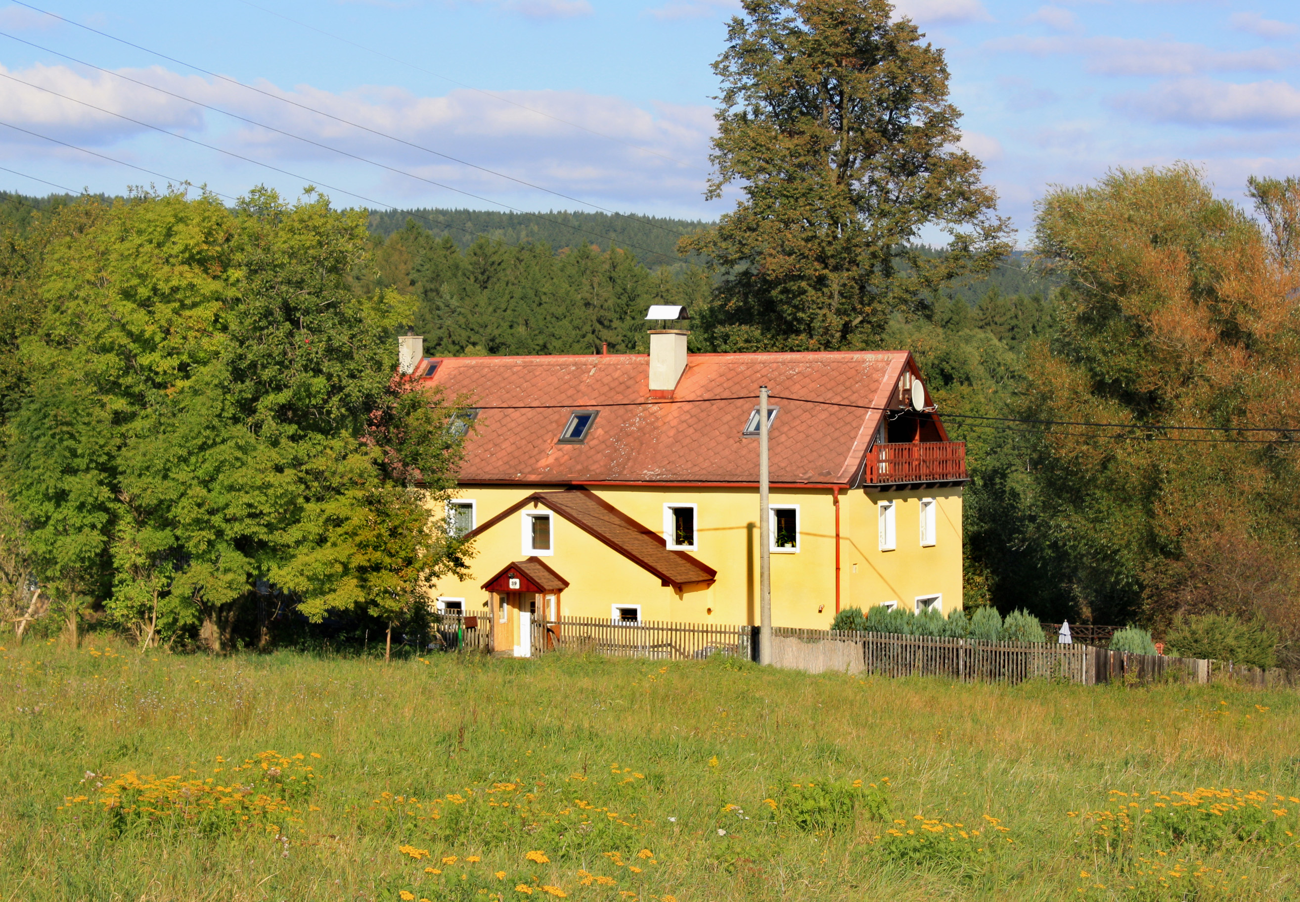 Růžek, part of Nová Ves, Czech Republic